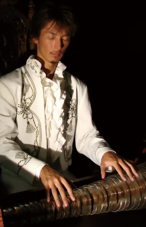 Japanese Armonicista Hidekatsu Onishi with his Armonica